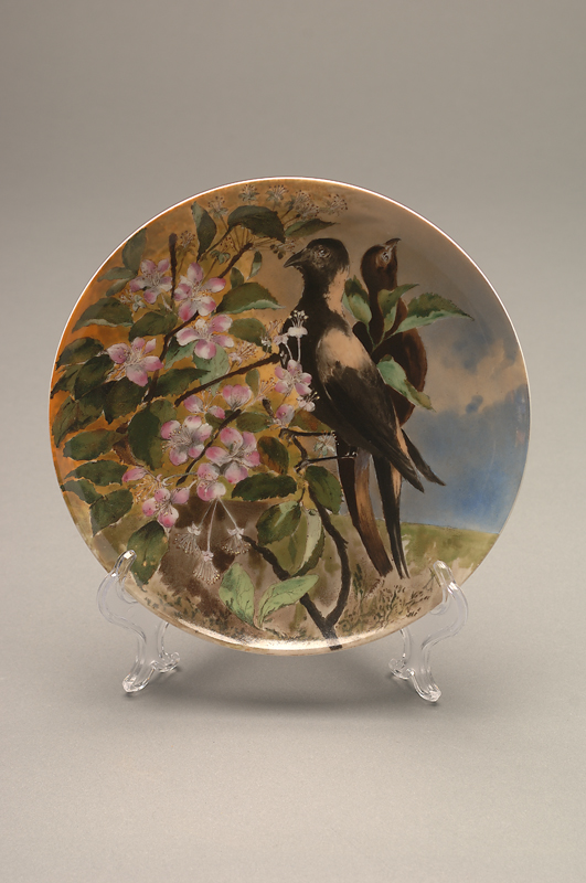 Dinner plate purchased in 1877 by the administration of President Rutherford B. Hayes, and used in the White House in Washington, D.C., in the United Stats. First Lady Lucy Hayes wanted a new china service, and met with artist Theodore Davis in the White House conservatory to discuss a design. Inspired by the meeting site, Davis suggested hand-painted scenes depicting American wildlife, surrounded by naturalistic settings of native American plants. Hayes agreed, and the service was delivered in February 1877.